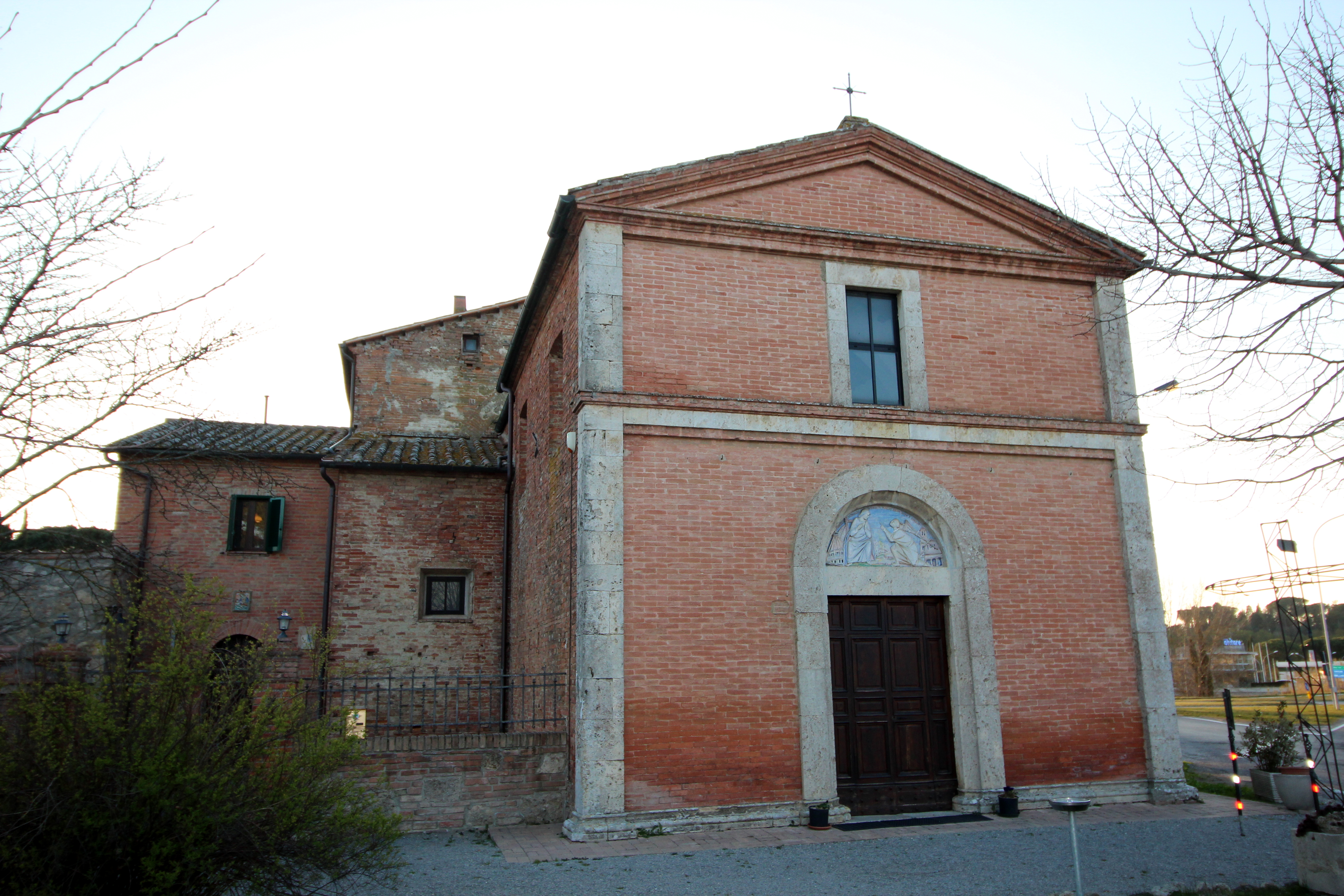 Church Santissimo Nome di Maria, Querce al Pino, hamlet of Chiusi, Province of Siena, Tuscany, Italy